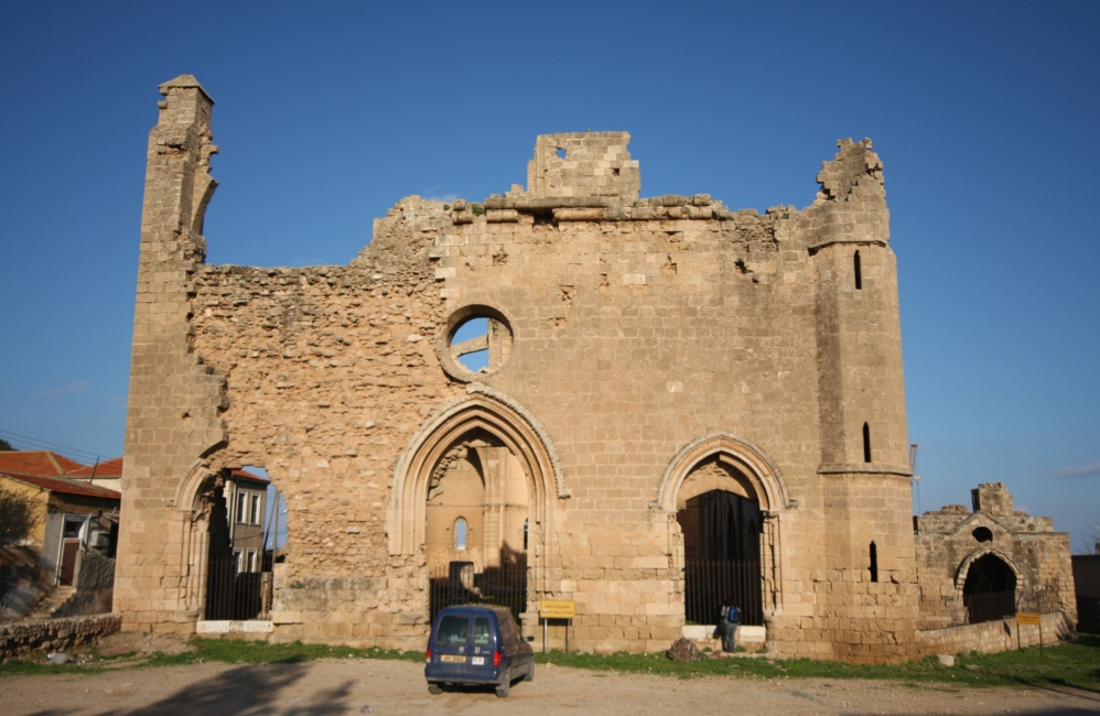 Saint Georgios of the Greeks, west entrance